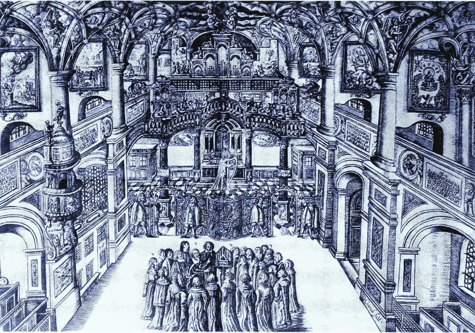 Schlosskapelle Residenzschloss Dresden